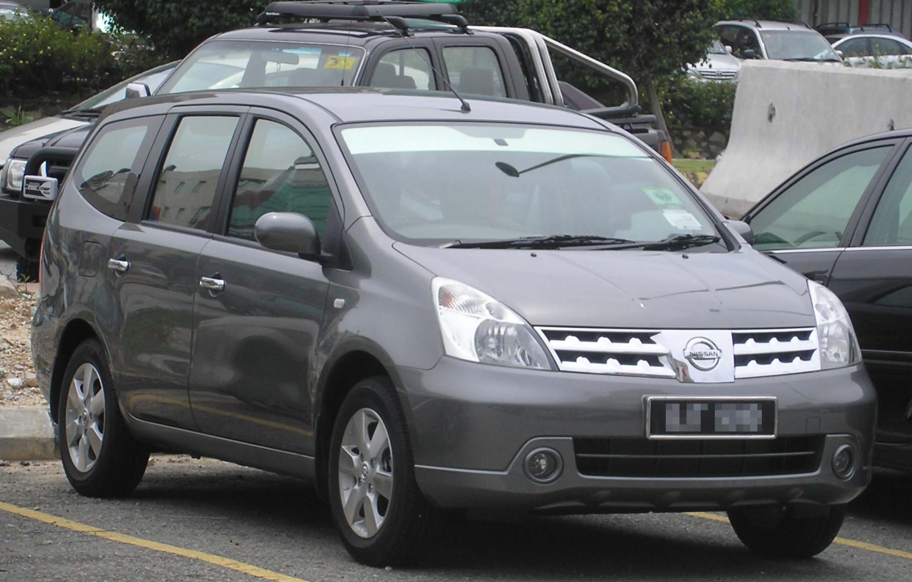 Front quarter view of a first generation Nissan Grand Livina, in Serdang, Selangor, Malaysia.